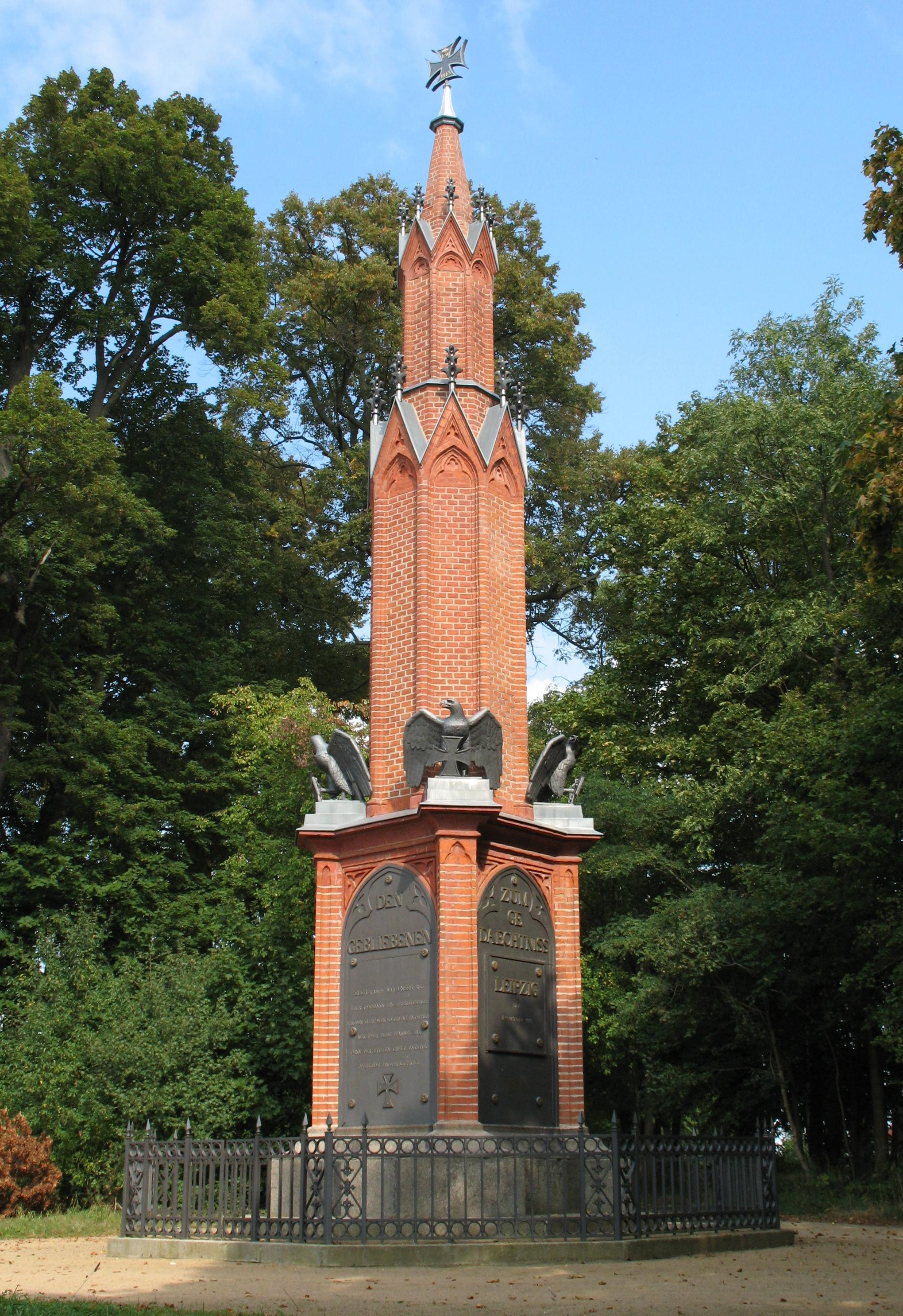 Napoleonic War memorial in Uckerland-Wolfshagen in Brandenburg, Germany